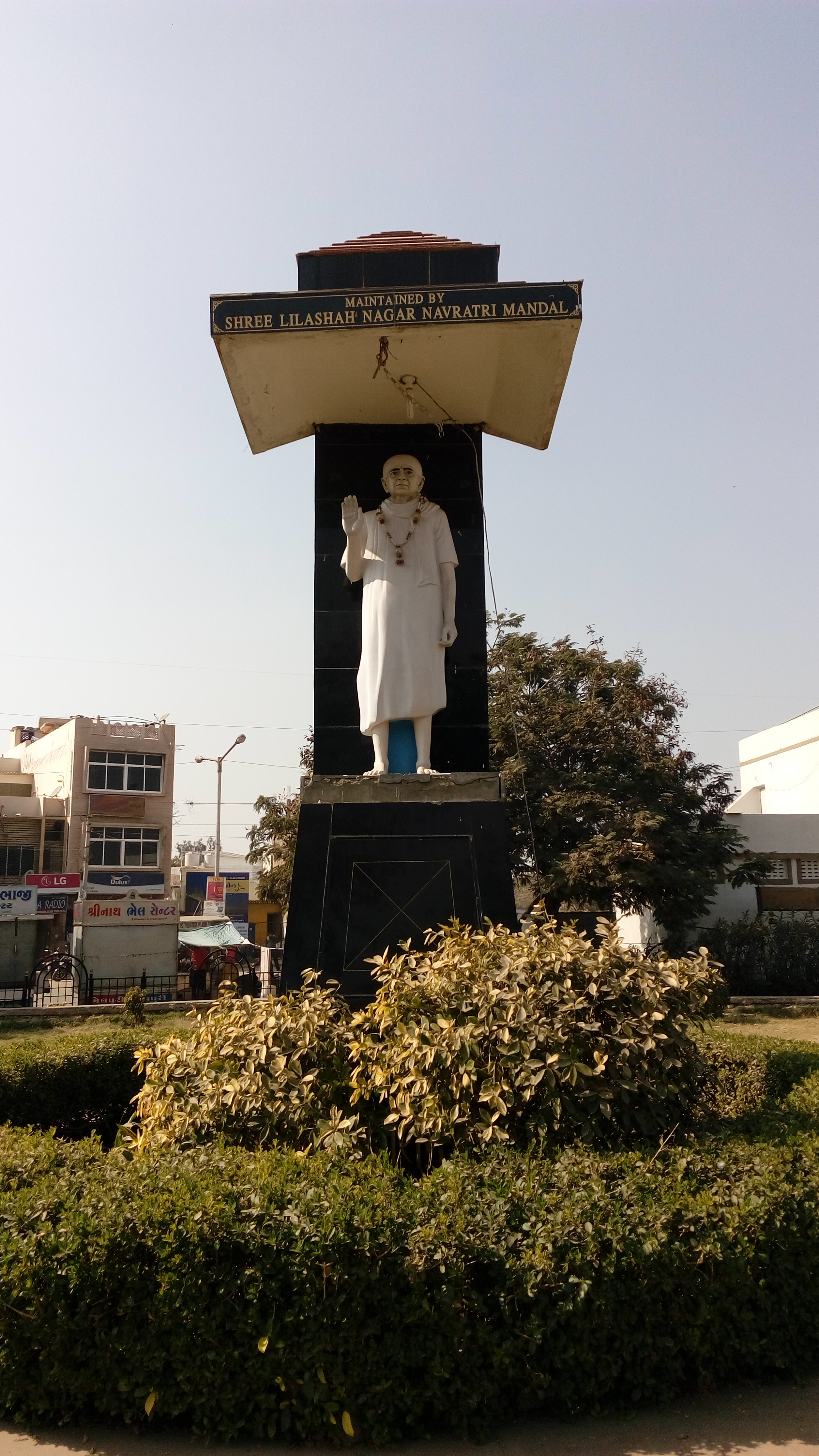 statue of Lilashah, a Hindu saint, at Lilashah circle, Gandhidham, Kutch, Gujarat, India